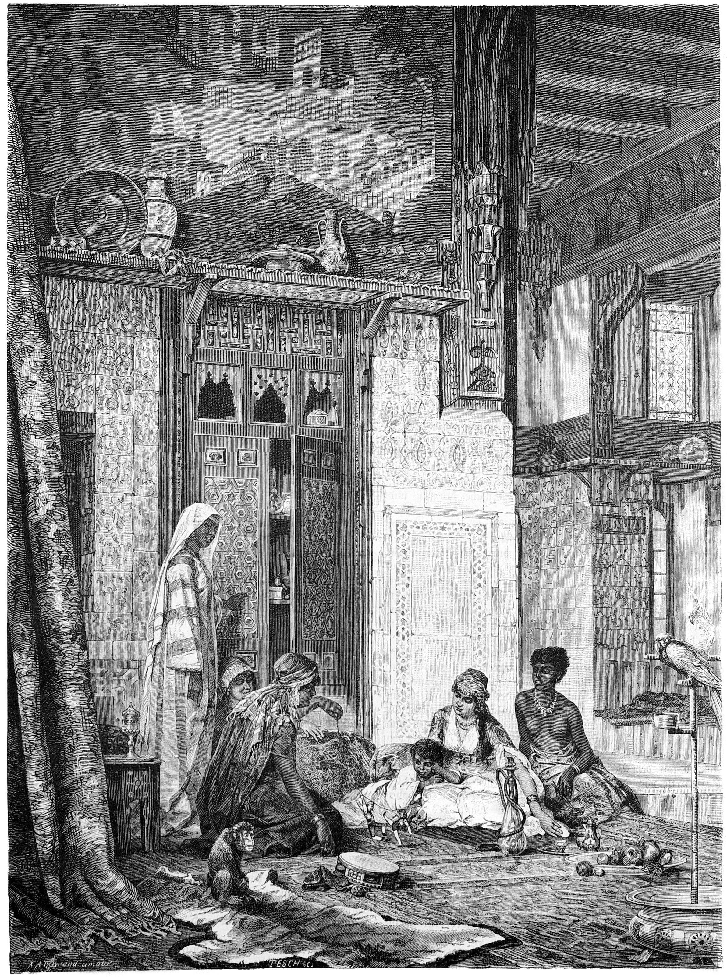 caption: "In einem Harem der Khalifenzeit. Von Ad. Seel. Aus dem Prachtwerke „Aegypten in Bild und Wort“."